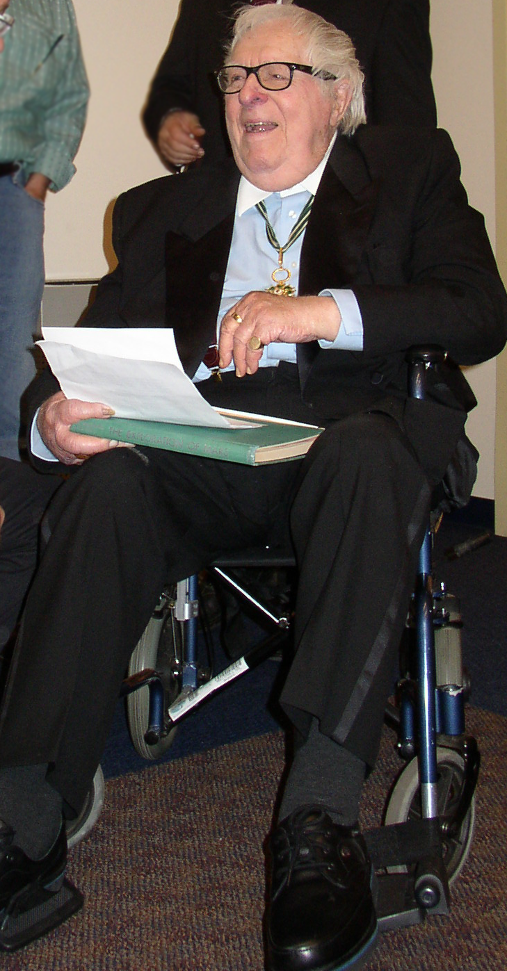 Ray Bradbury at the 2008 University of California, Riverside Eaton Conference